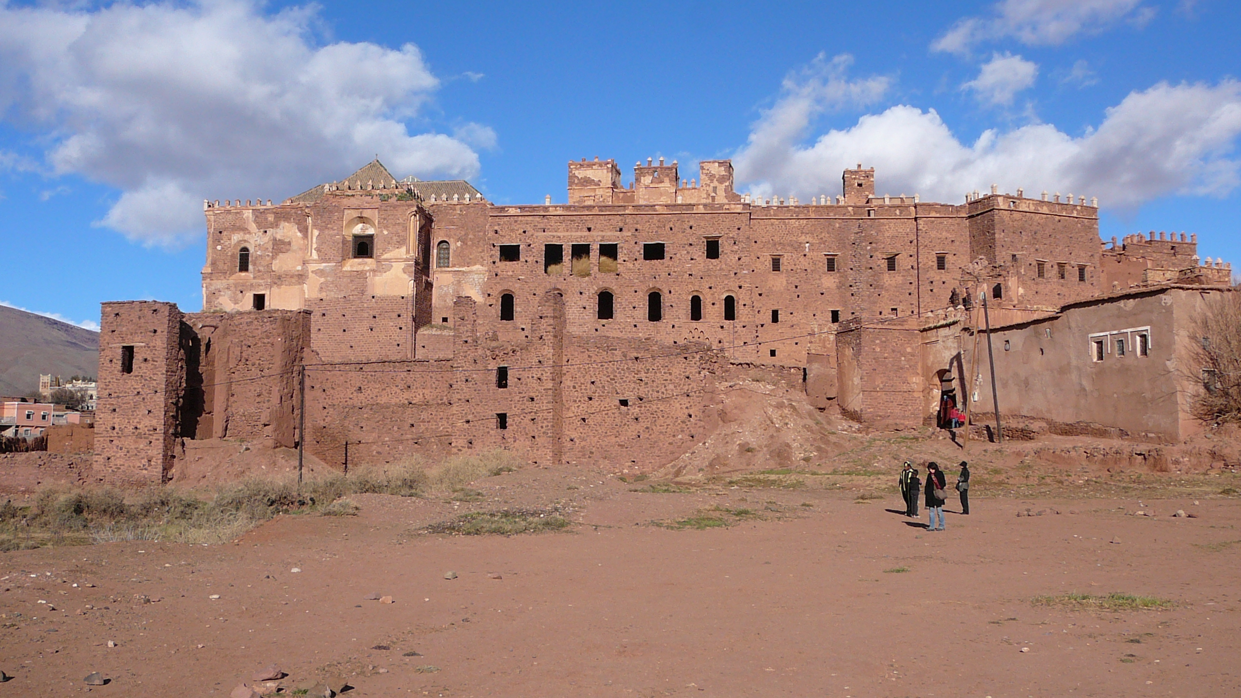 Telouet Casbah (Morroco)